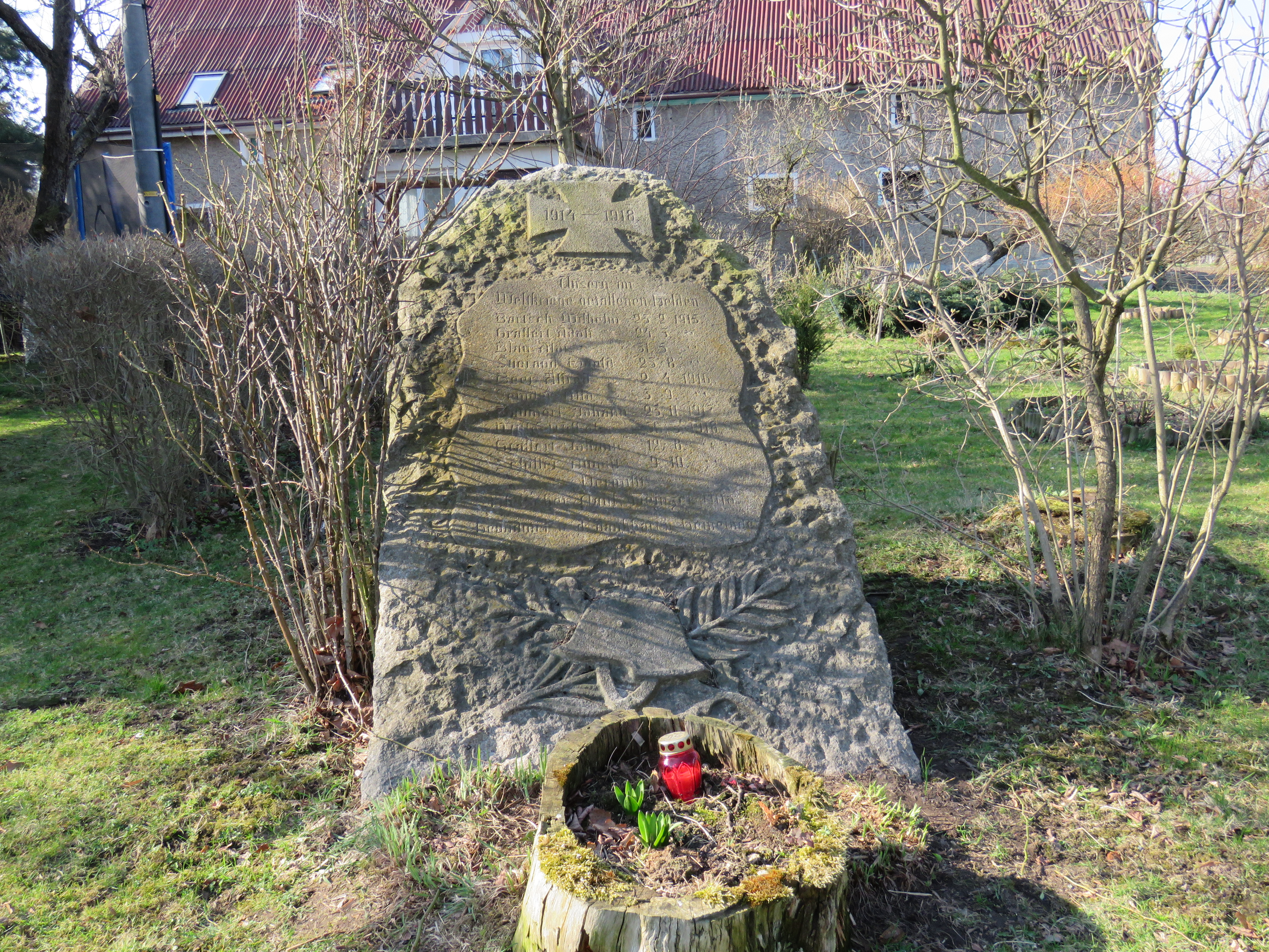 Monument of fallen German soldiers from Lindenau (Lipienica) during the First World War.